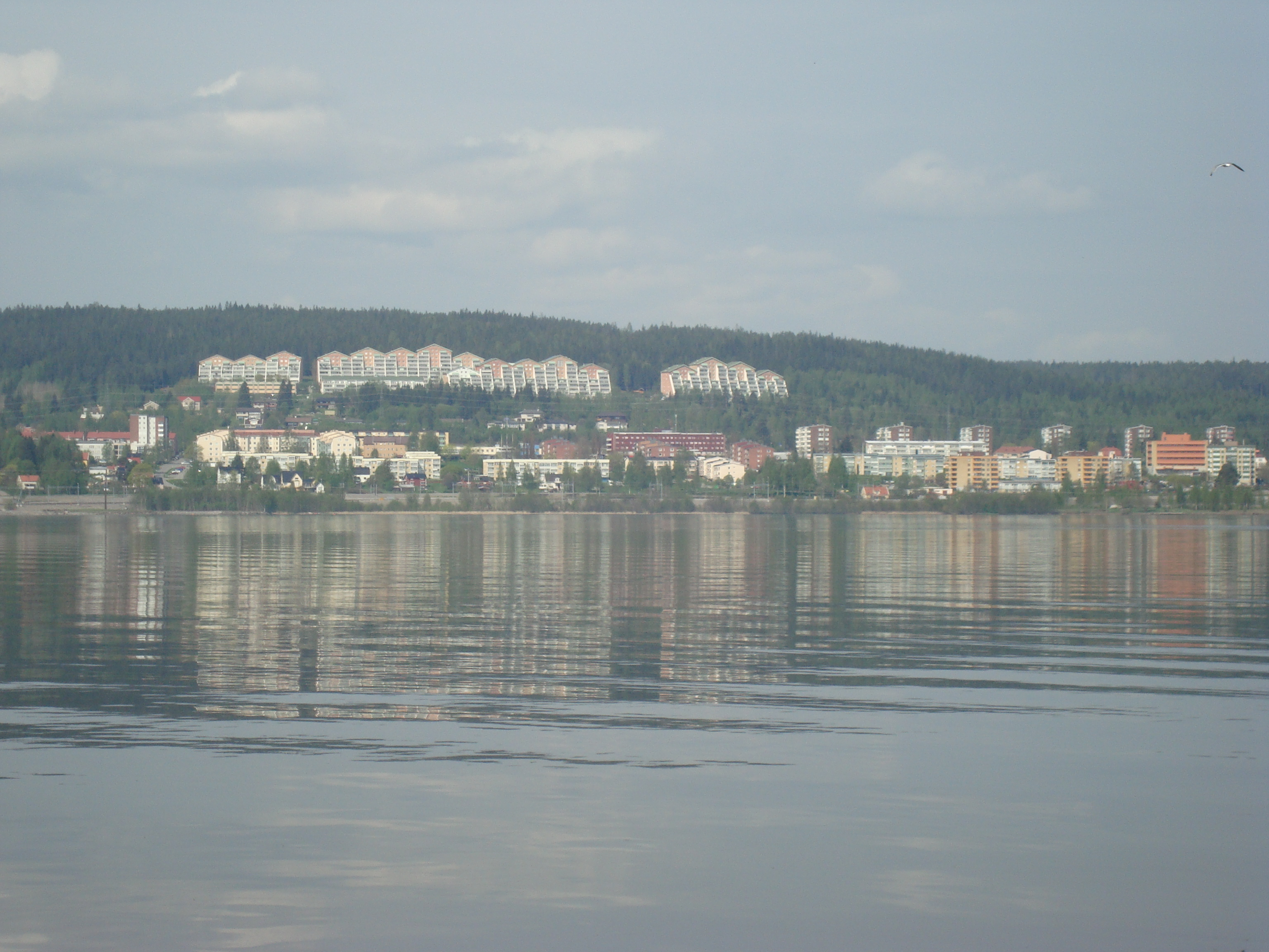 A picture of Timrå town centre seen from Alnö.